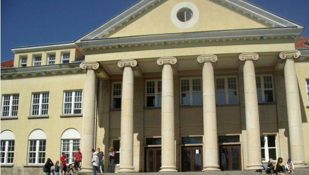 Ostrander Hall: one of the seven academic buildings at the American College of Sofia